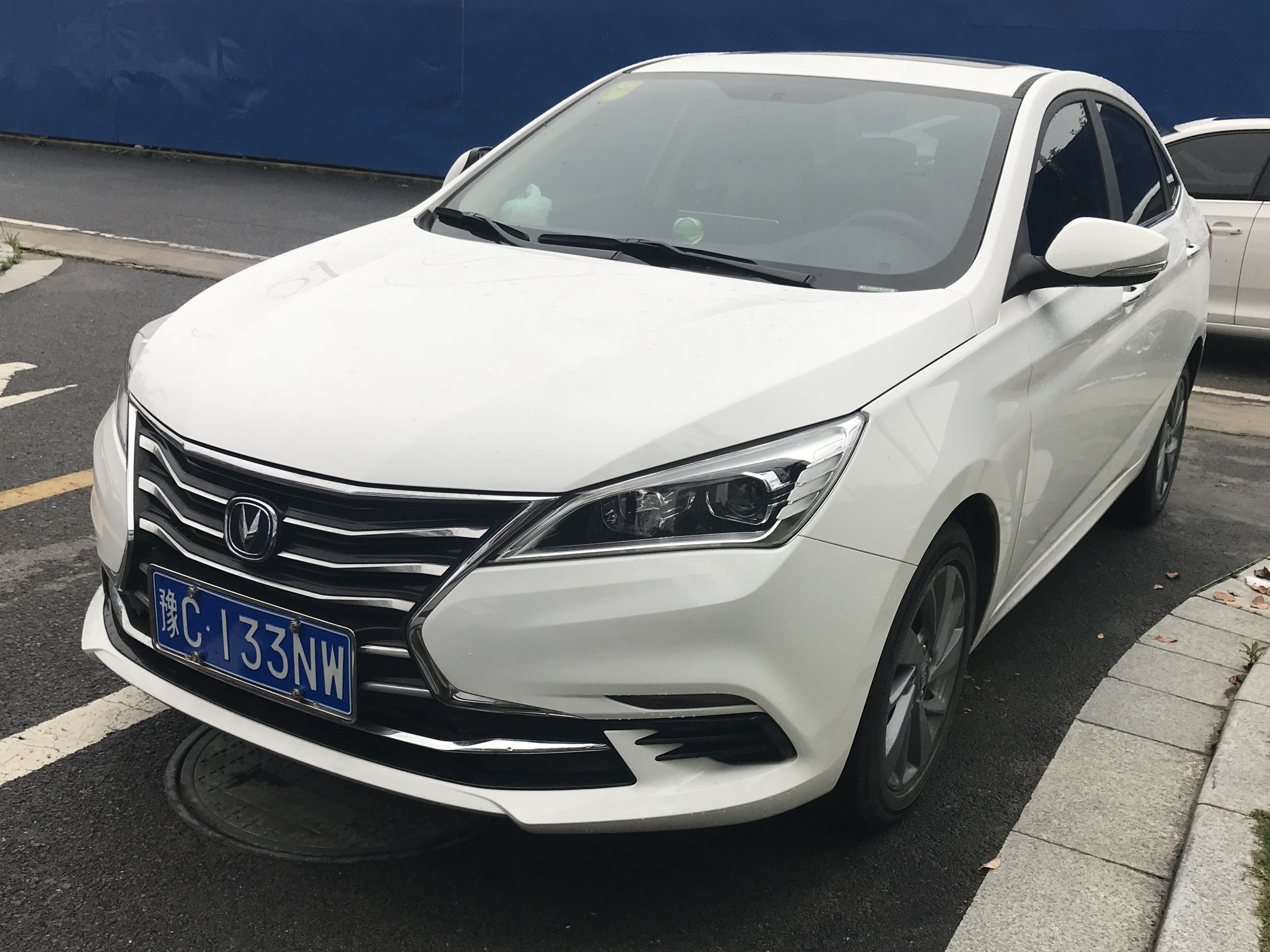 Changan Eado DT